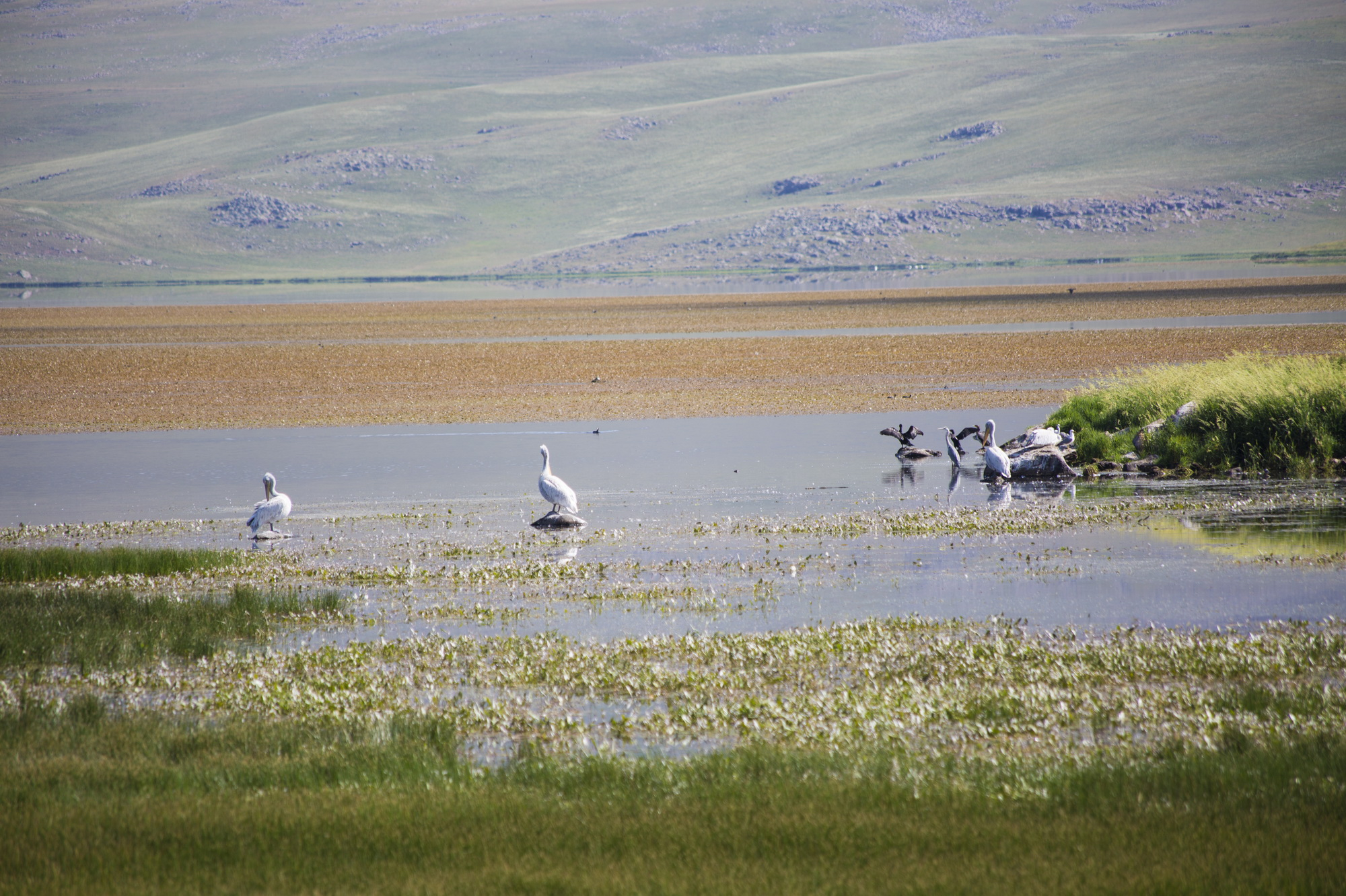 Javakheti Protected Areas was established in 2011. It includes Javakheti National Park, Kartsakhi Managed Reserve, Sulda Managed Reserve, Khanchali Managed Reserve, Bugdasheni Managed Reserve and Madatapa Managed Reserve. Javakheti Protected Areas include Municipalities of Akhalqalaqi and Ninotsminda. There are lots of lakes on Javakheti Plateau, including the biggest one – Lake Paravani. The highest point of Javakheti is Mount Great Abuli, with a height of 3,300 meters above sea level. Javakheti upland is the coldest places among settlements. It is characterized by dry continental climate, while the average annual temperature is quite low. In winter Javakheti lakes freeze for a long time